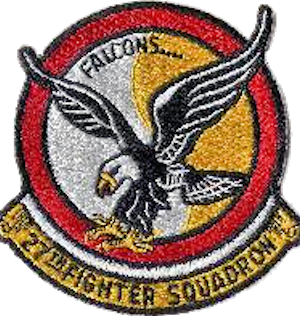 Emblem of the USAF 27th Fighter-Interceptor Squadron (ADC)